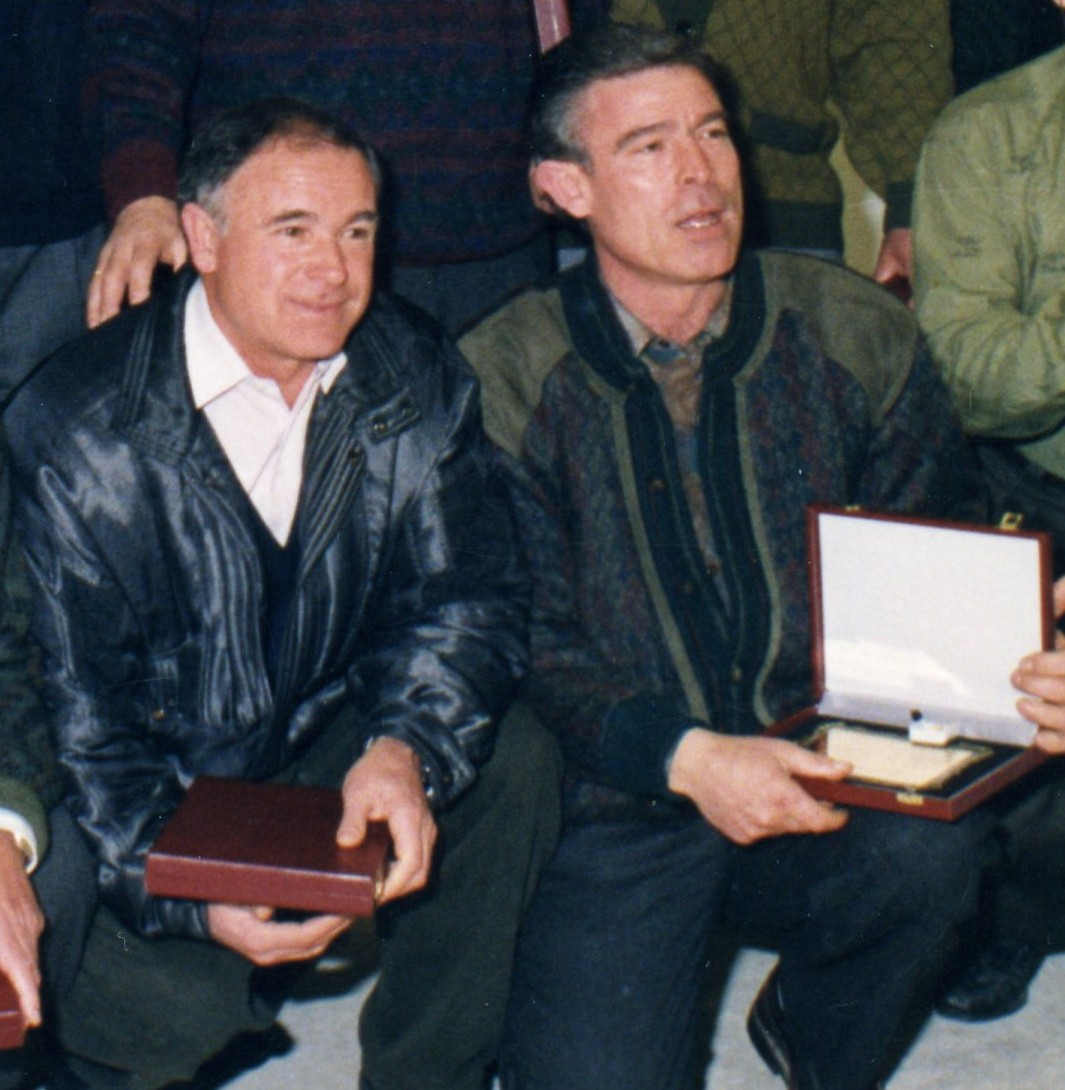 Valencian pilota players from L'Eliana: Ramon Chisvert (Gat I) and Lluís Chisvert (Gat II), left to right.